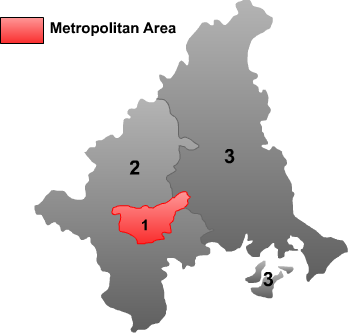 Map of Chaozhou in Guangdong province.